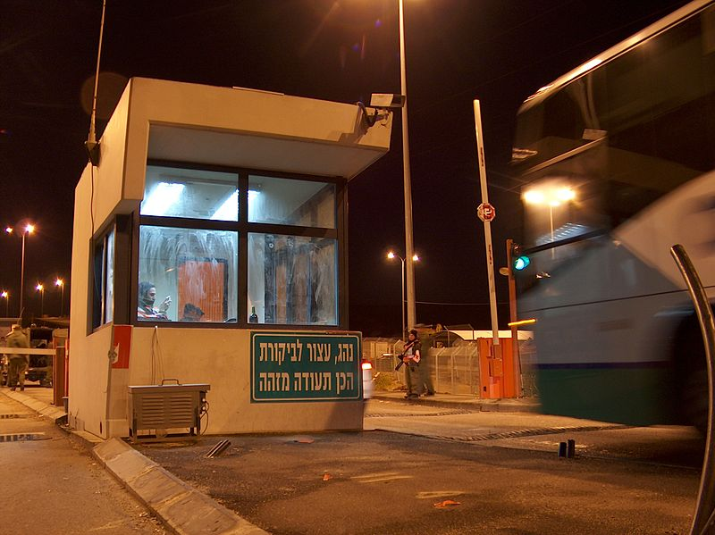 Westbound Maccabim Security Checkpoint approching Modiin Sign reads: Driver, stop for inspection with identification ready.